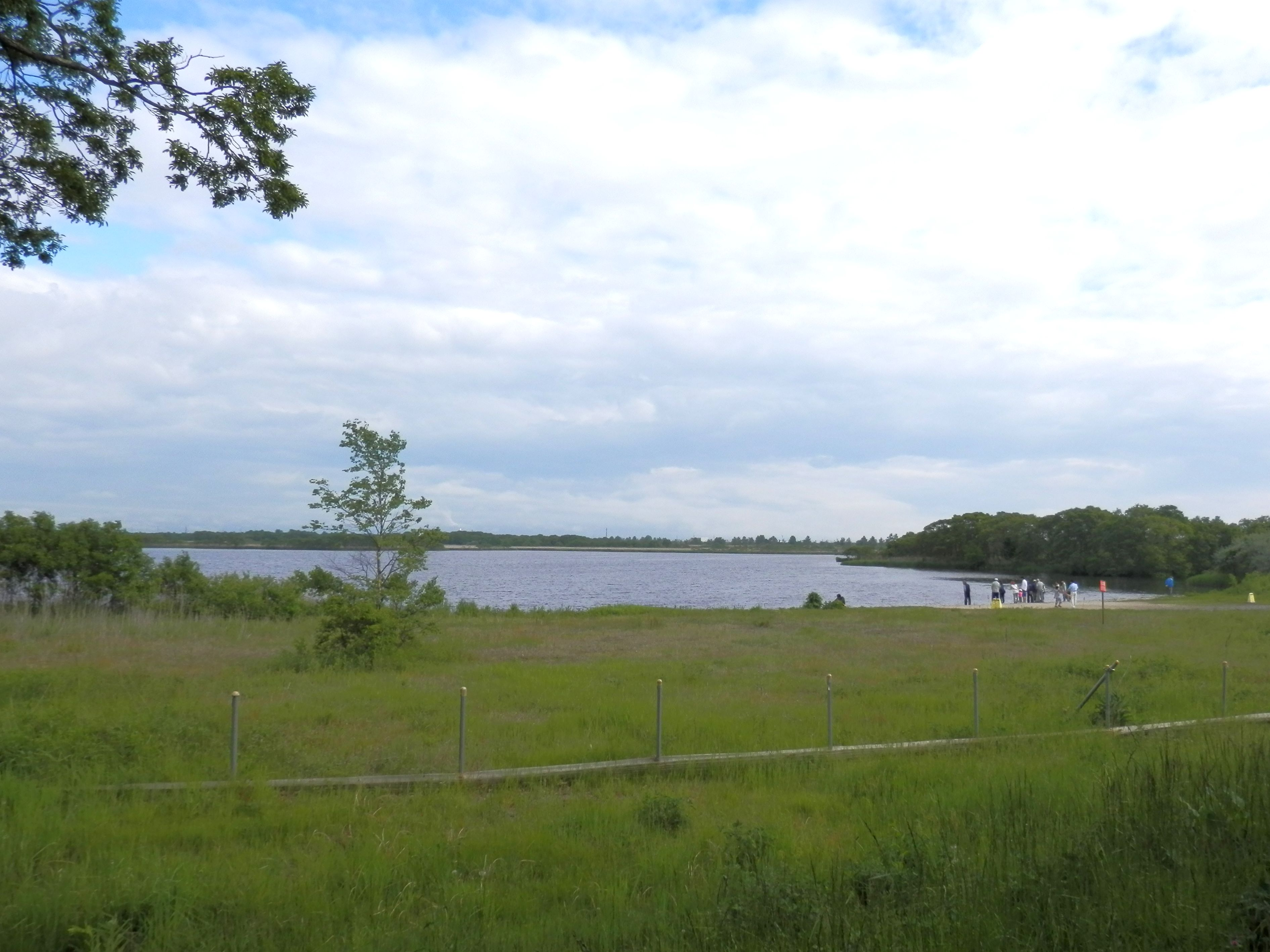 Lake Utonai in Tomakomai, Hokkaido